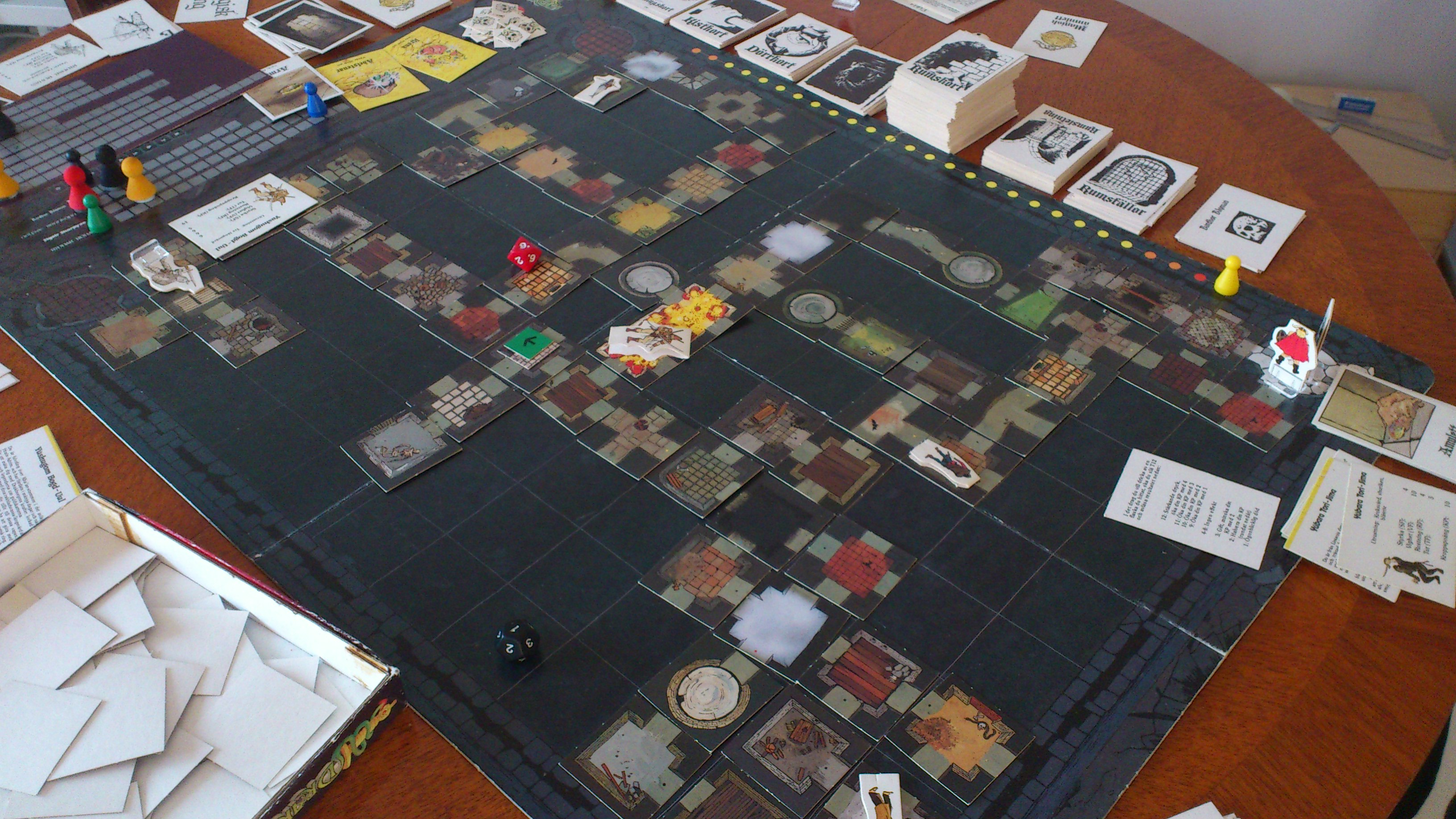 The game board for Drakborgen (with the expansion Drakborgen II) as it may look after a finished game. In this particular game five of the eight participating heroes died within the walls of the dungeon.